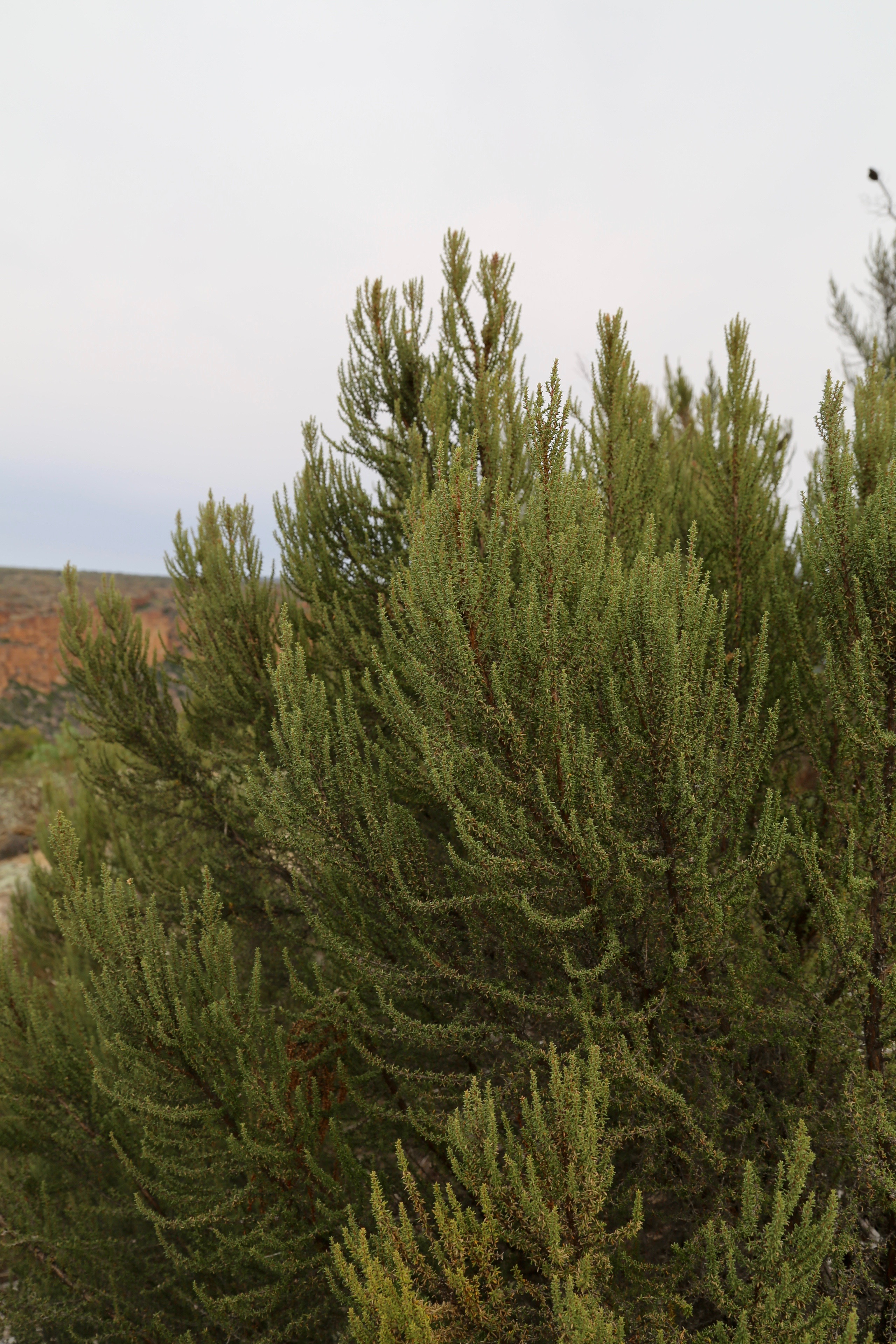 Shale Renosterveld, Oorlogskloof river canyon in the vicinity of Papkuilsfontein, Nieuwoudtville, Northern Cape, South Africa.